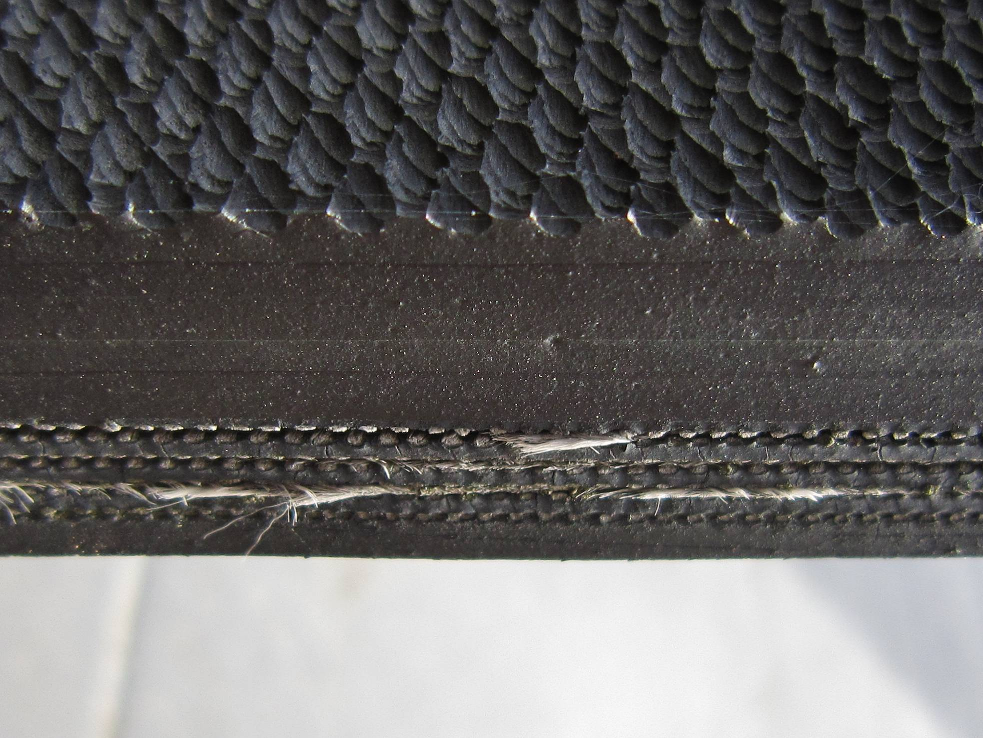 Mogamigawa Samidare Ōzeki cutaway.